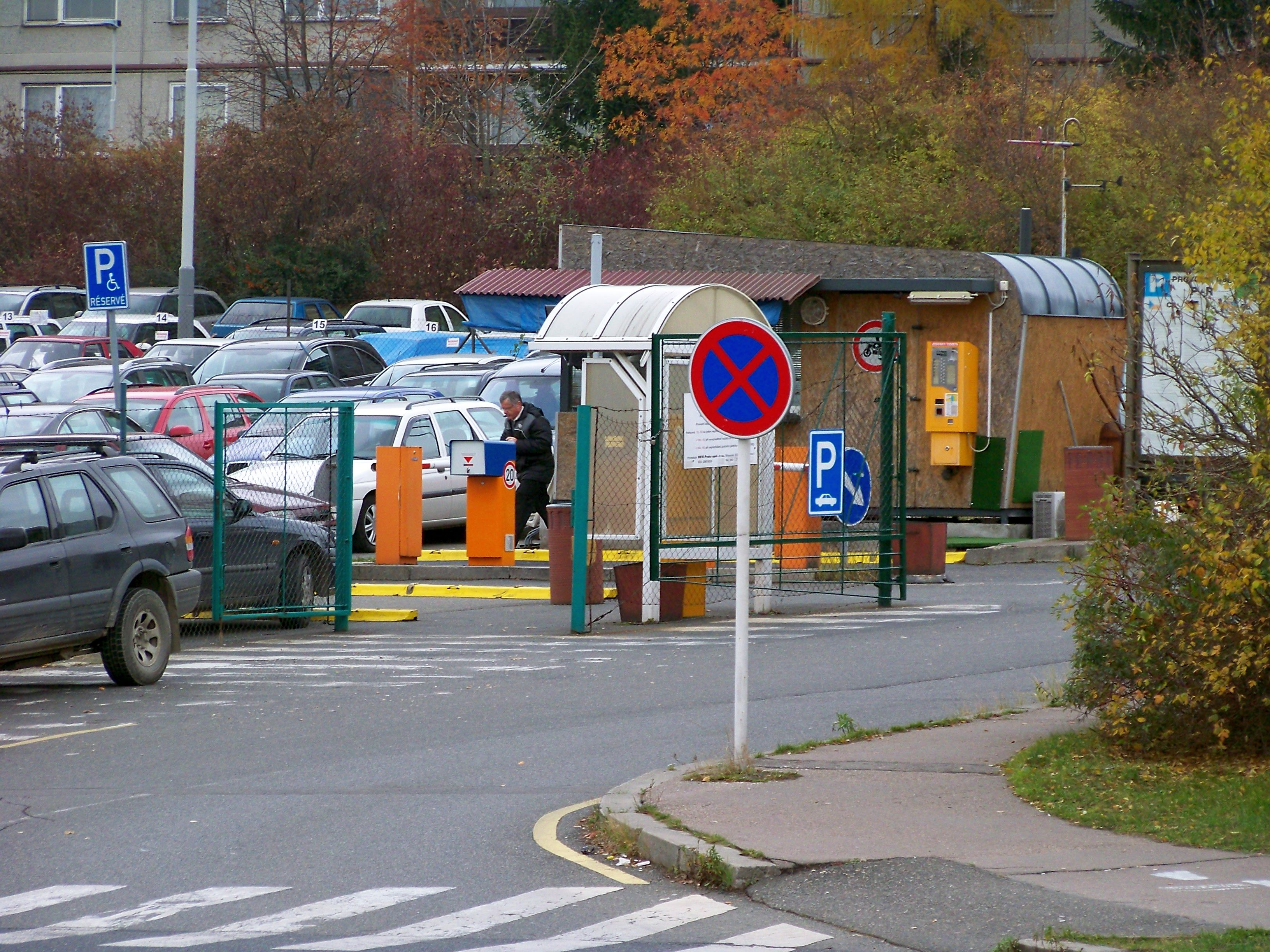 Chodov, Prague, the Czech Republic. Chilská Street, Park and Ride parking facility near Opatov metro station.